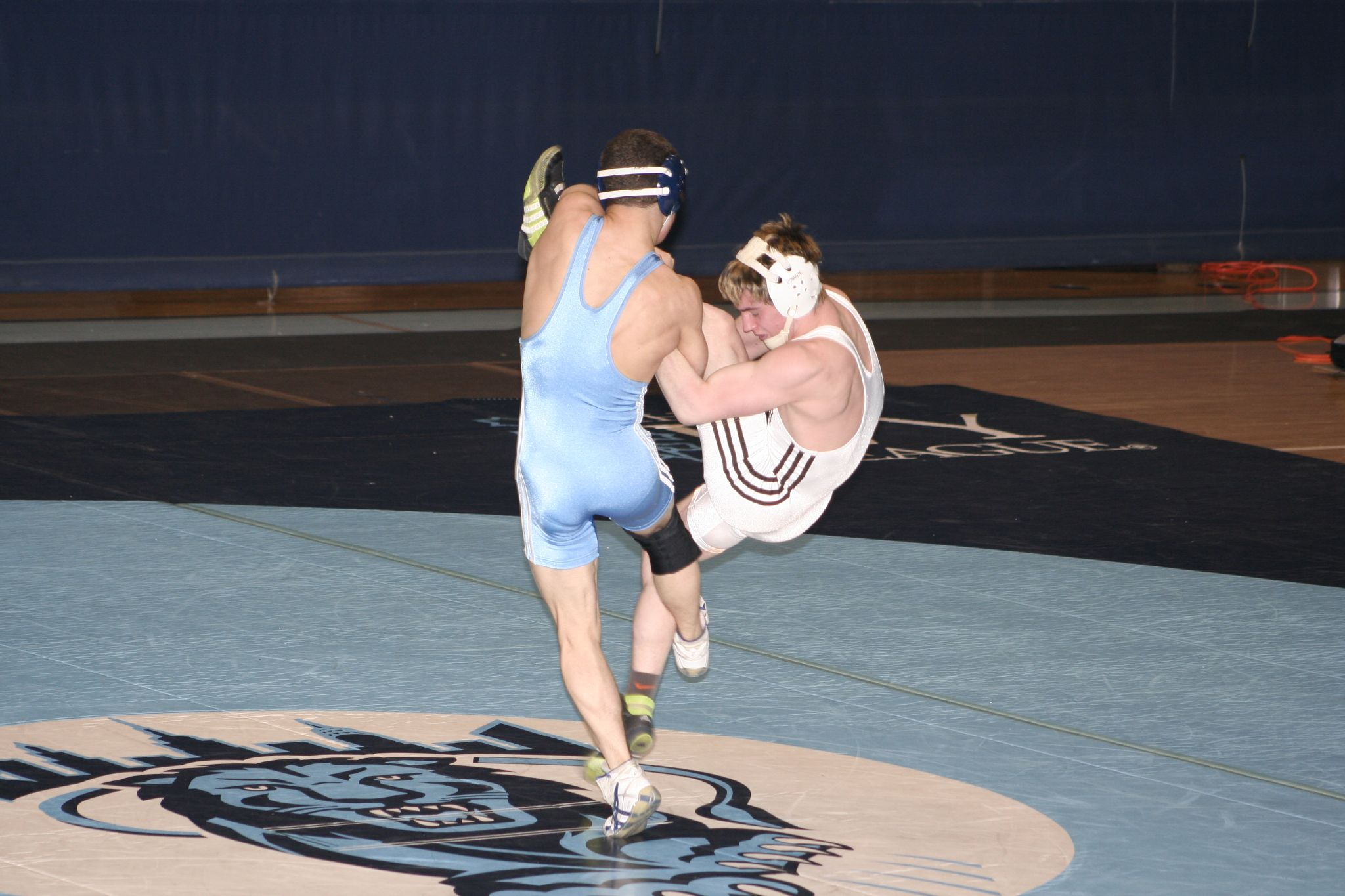 Two college students wrestling (collegiate, scholastic, or folkstyle) in the United States. Originally uploaded by Wikiman86 on the English Wikipedia project at